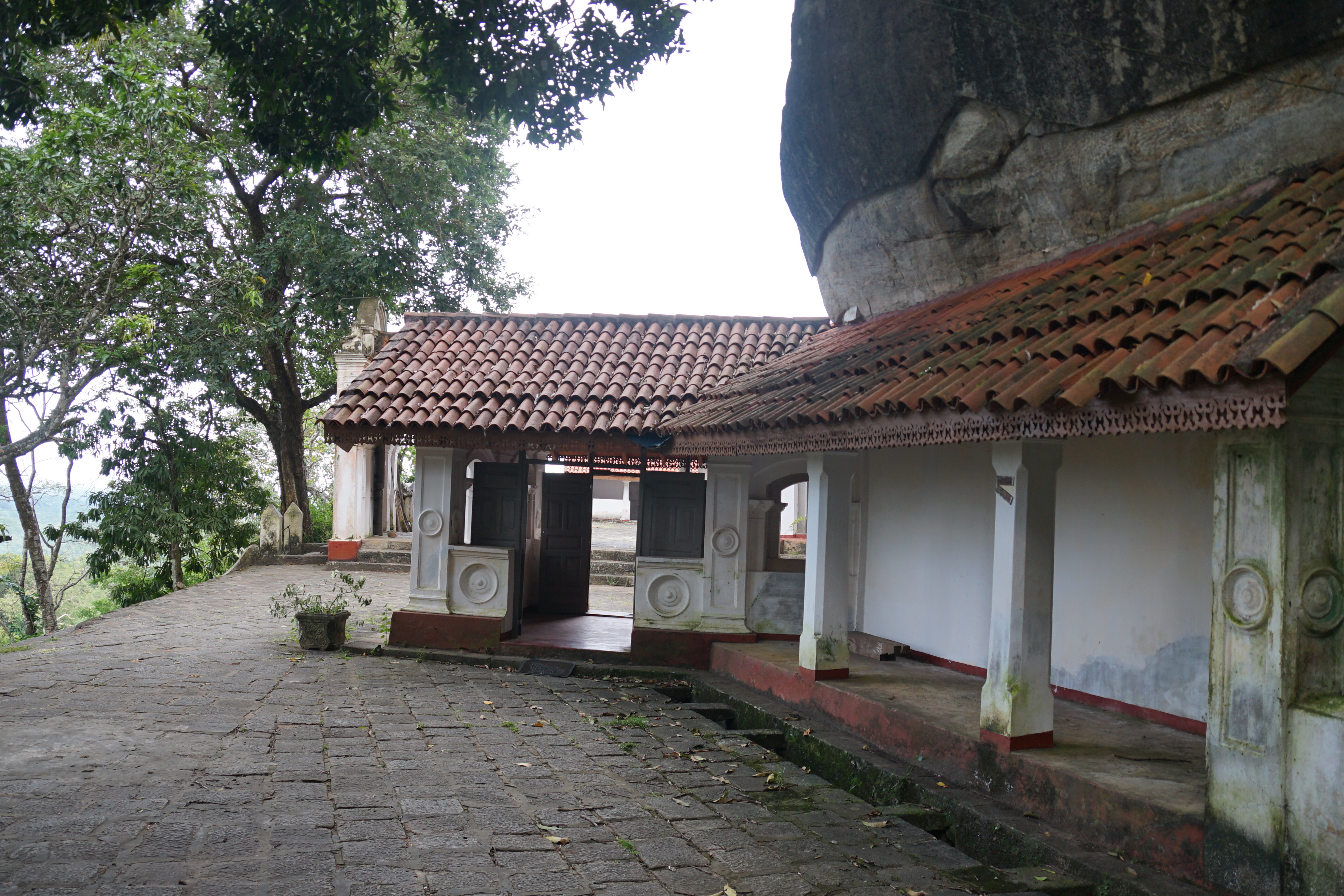 Raja Maha Vihara terrace at Mulkirigala Rock Temple